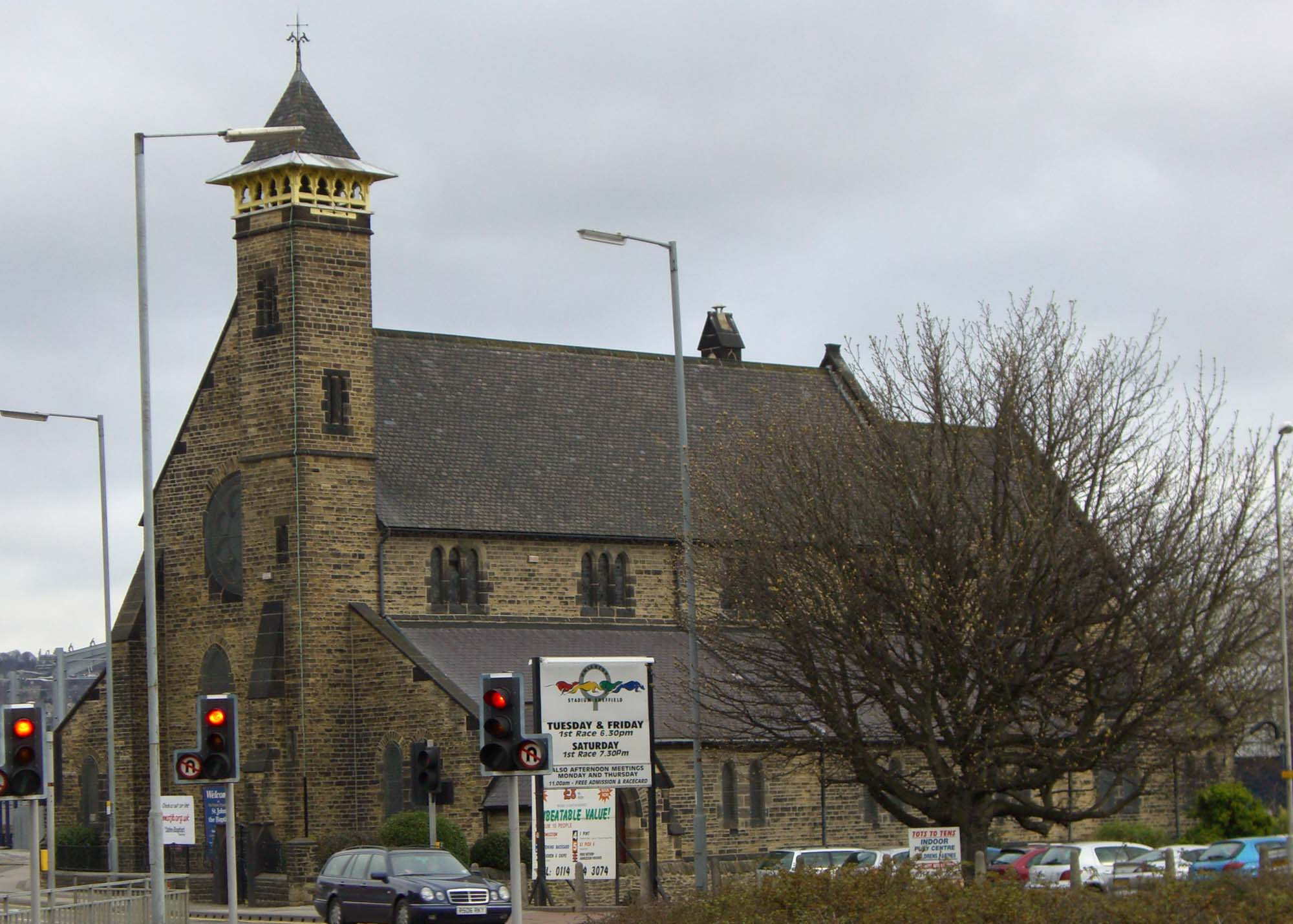 Parish church of St John the Baptist, Penistone Road, Owlerton, Sheffield, South Yorkshire, seen from the south